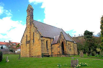 Boltby, Holy Trinity Church. This Church is in the western quarter of the O/S grid it occupies, to the north of centre.